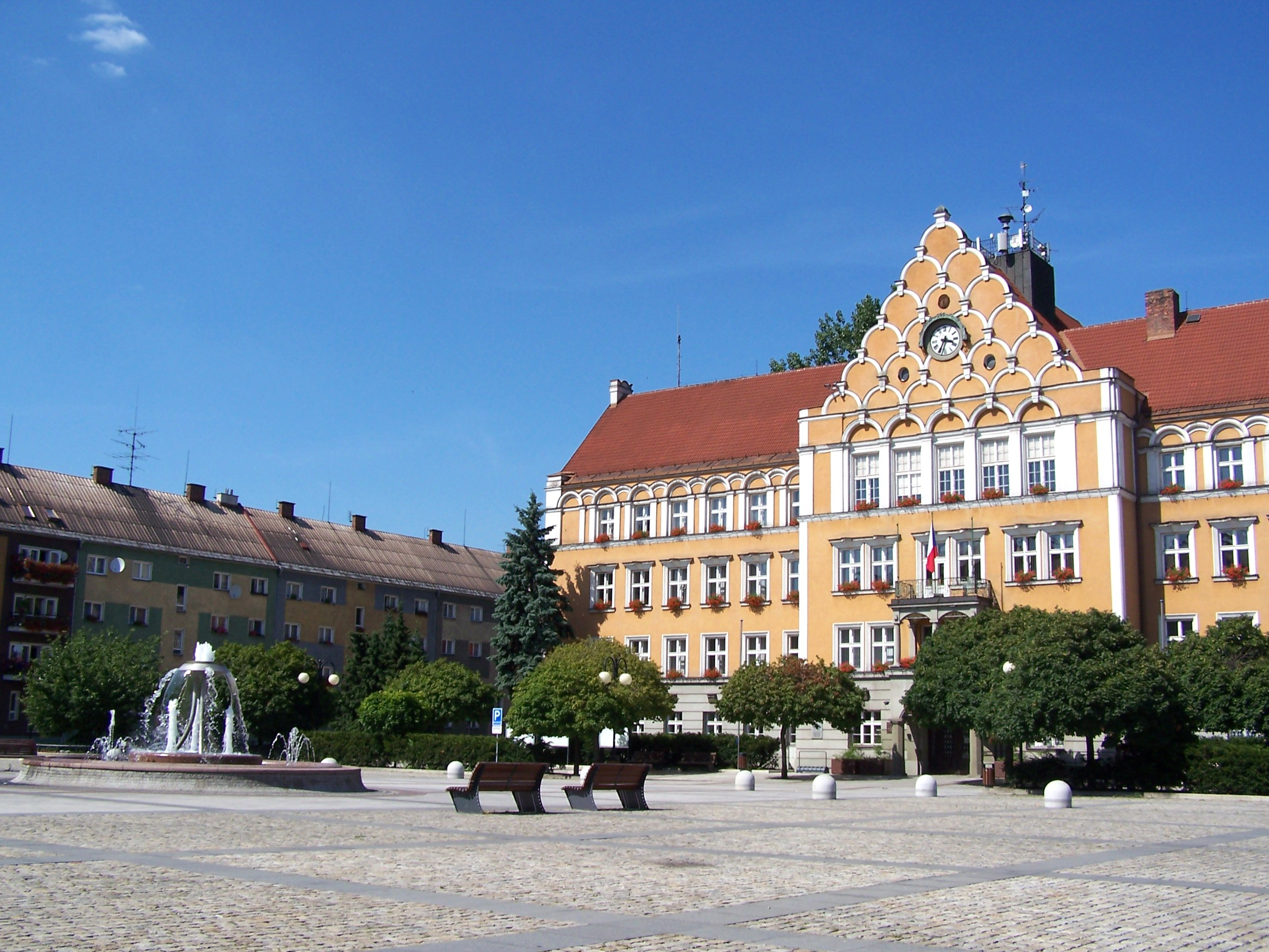 View of the town hall and fragment of main square in Český Těšín (Czeski Cieszyn).